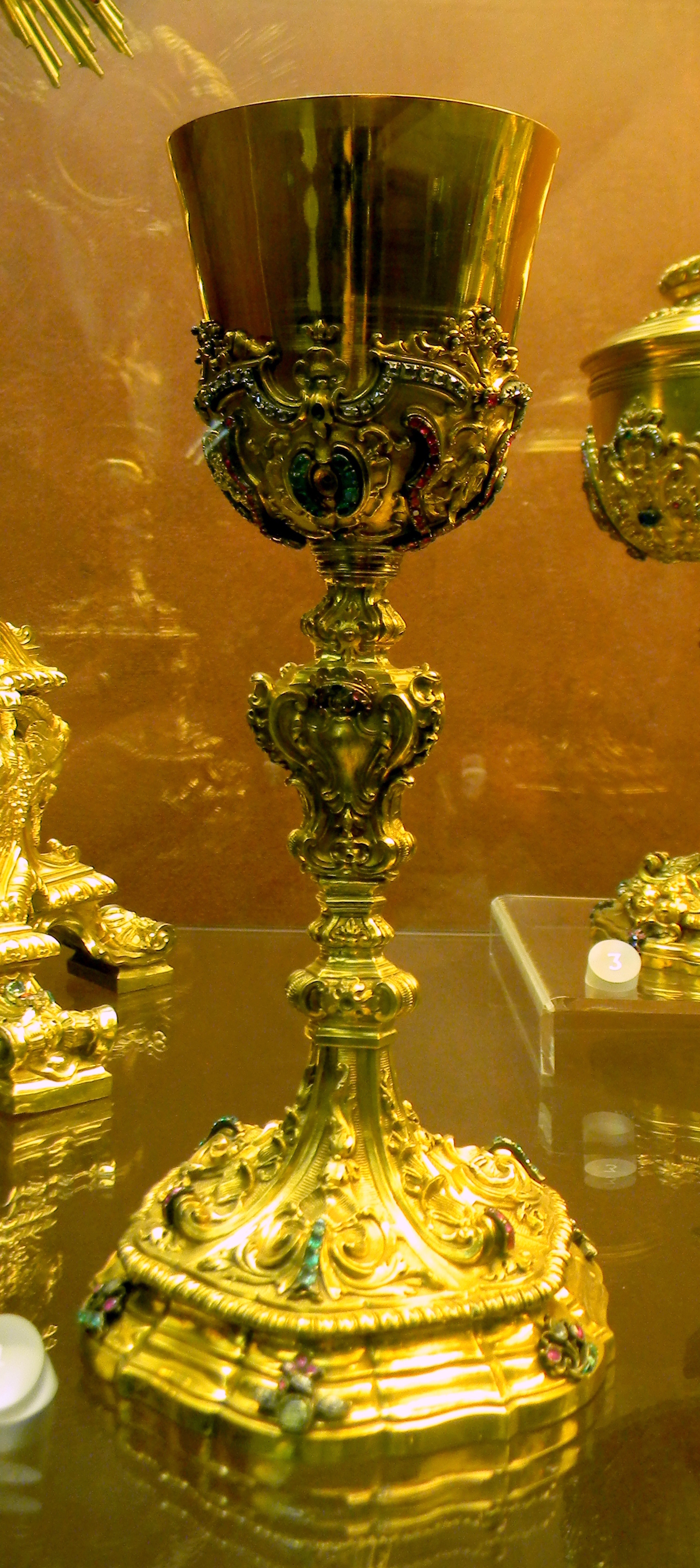 On the base bears an inscription stating that it was a gift from Frei Francisco de Jesus Maria Sarmento to the chapel and sodality of Nª. Srª. do Patrocínio in the year of 1768. The chalice is made of gold, silver gilt, diamonds, rubies, emeralds and rhinestones. Nowadays it is in the National Museum of Ancient Art.